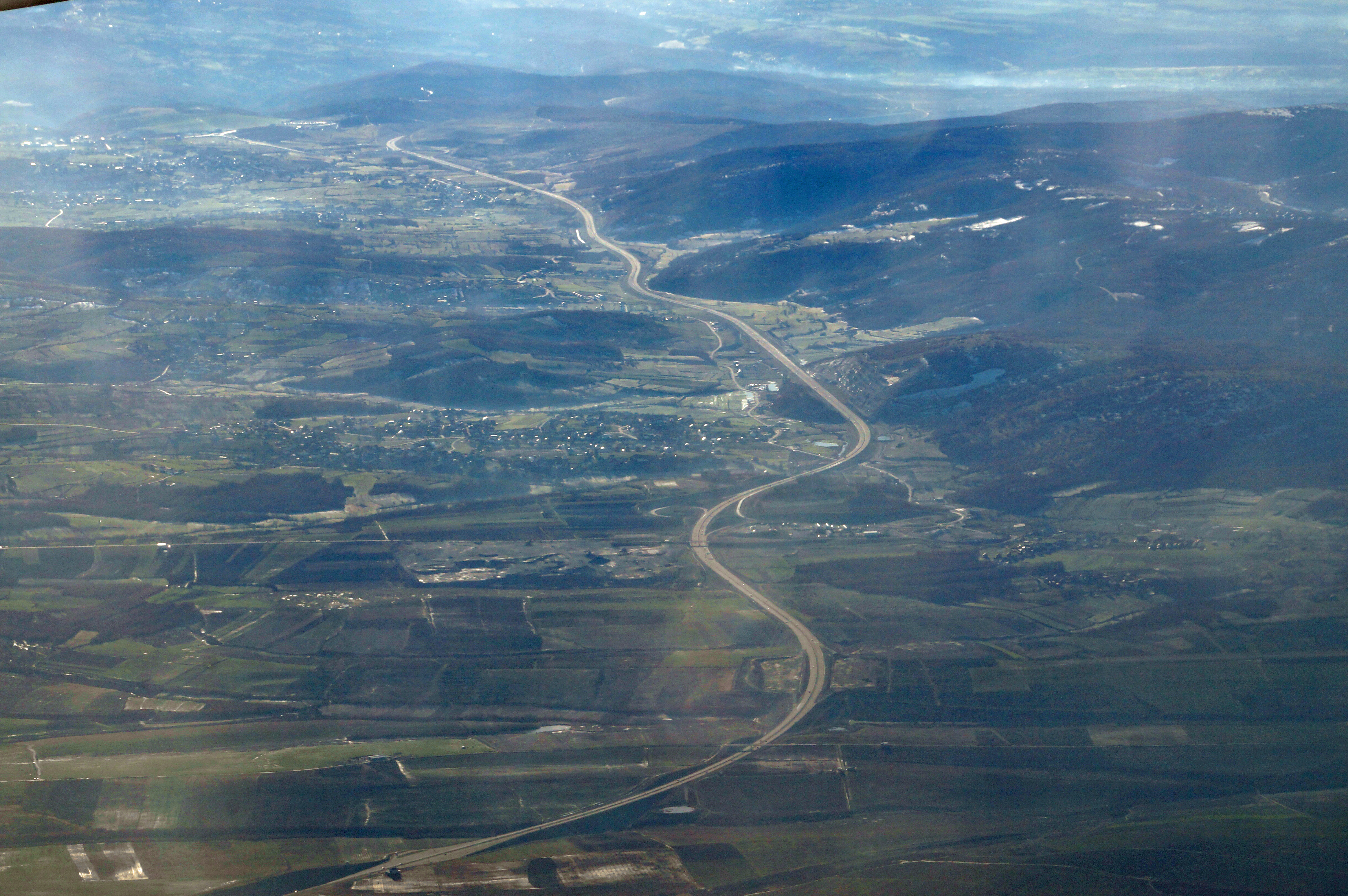 The highway between Prishtina and Prizren